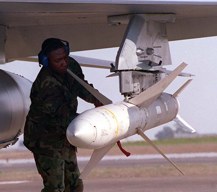 An AGM-88 HARM (Anti-Ground Missile 88 High-speed Anti-Radiation Missile)